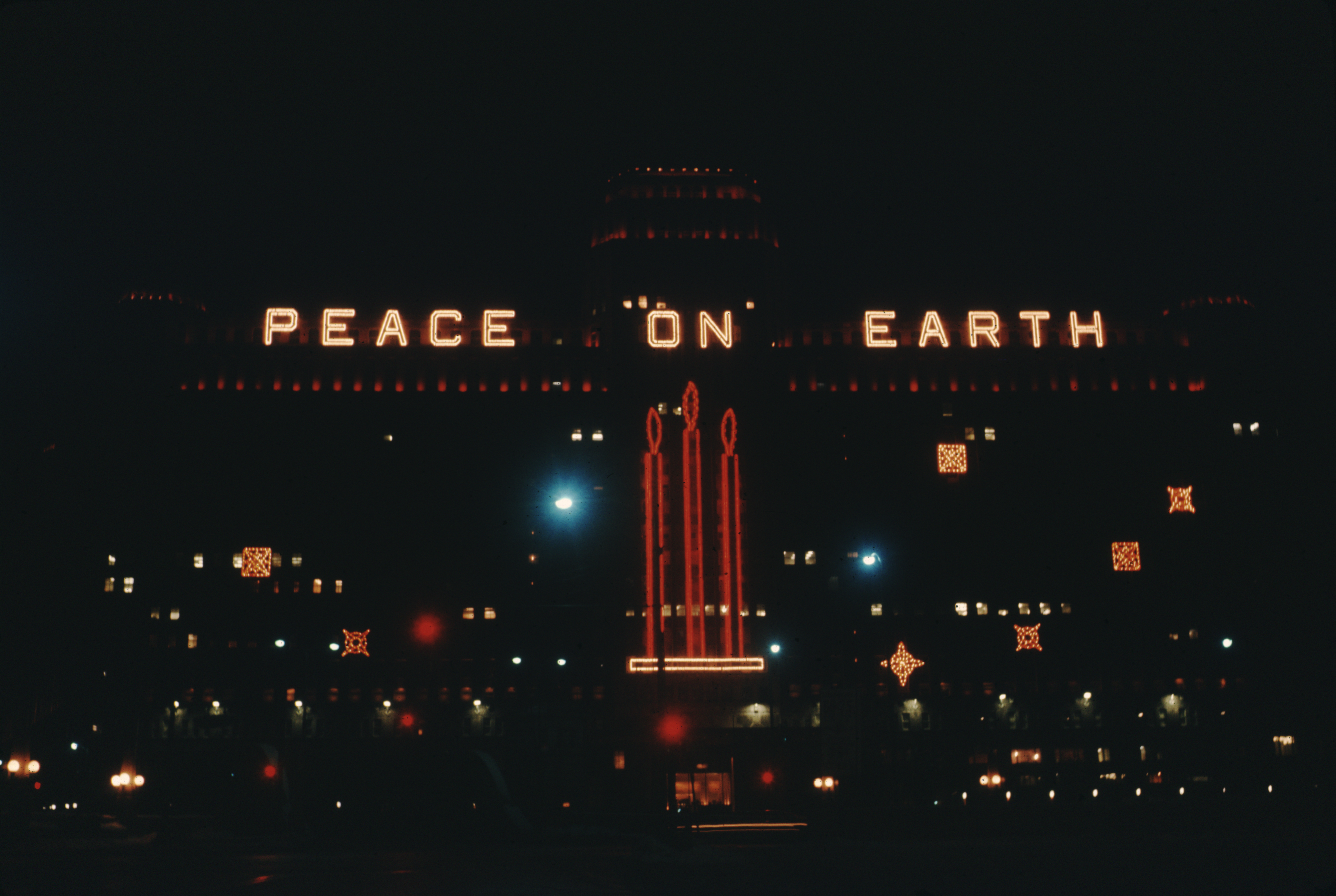 CyberViewX v5.16.55 Model Code=58 F/W Version=1.21 Photography by Victor Albert Grigas (1919-2017)